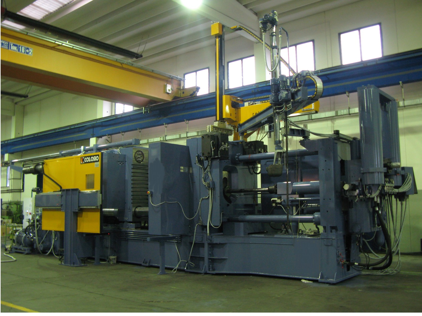 Die Casting machine cold chamber 2000 tons locking force